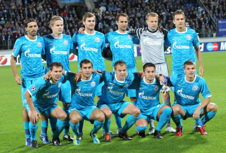 FC Zenit Saint Petersburg in UEFA Champions League group stage match against F.C. Porto